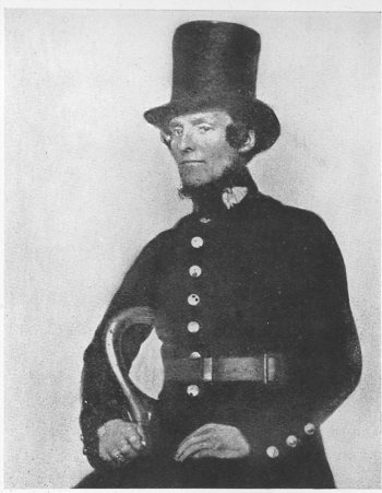 Picture of 1850s peeler